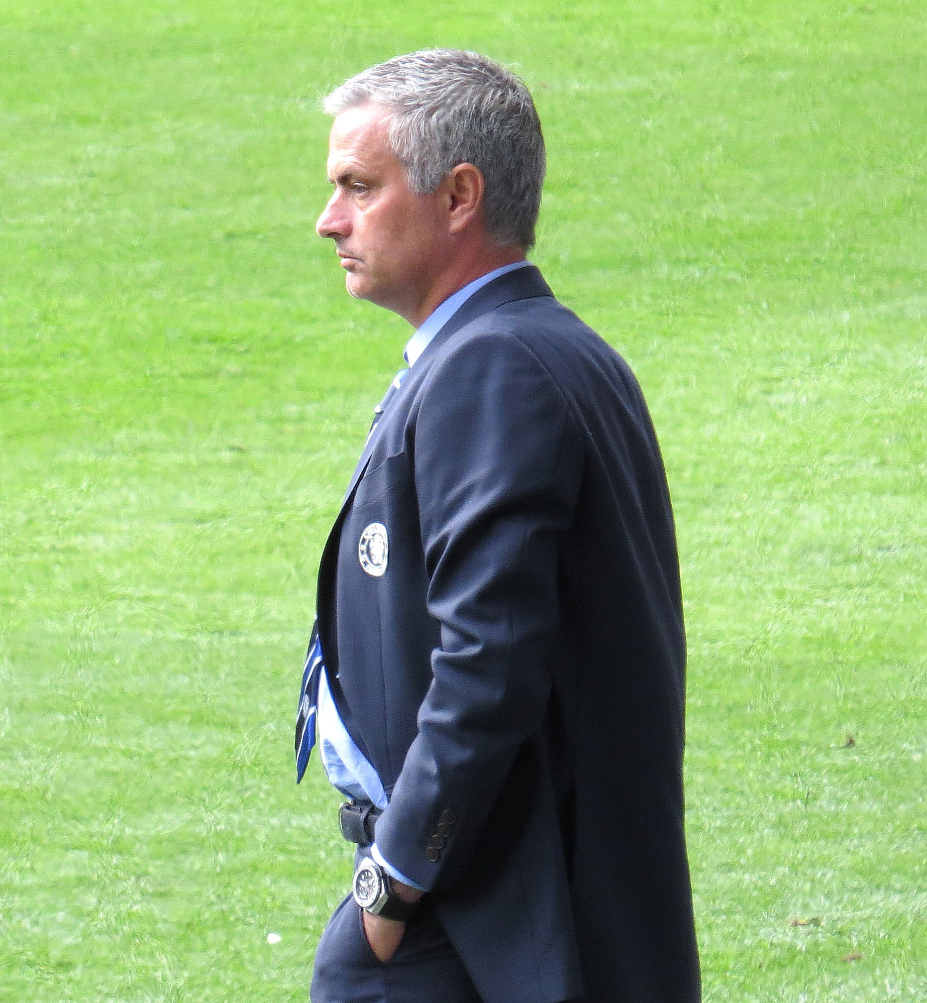 José Mourinho on the touchline against Leicester City August 2014